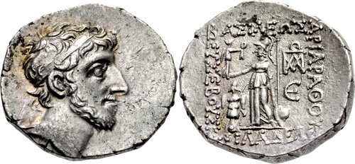 Ariarathes X coin